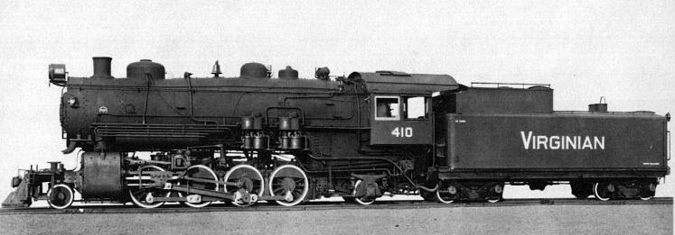 Virginian Railway Class MD #410